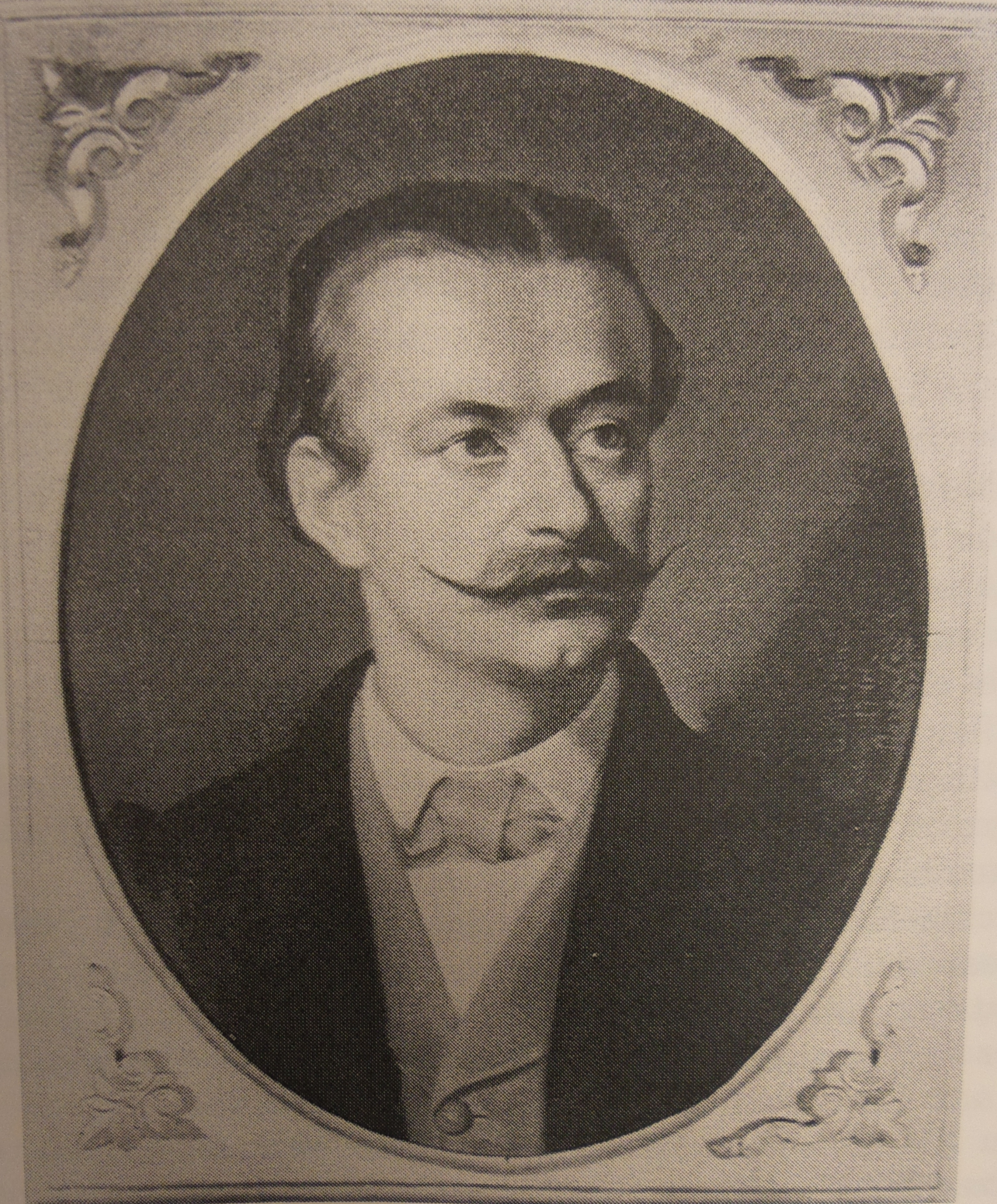 Portrait of Tinco Martinus Lycklama à Nijeholt (1837-1900)